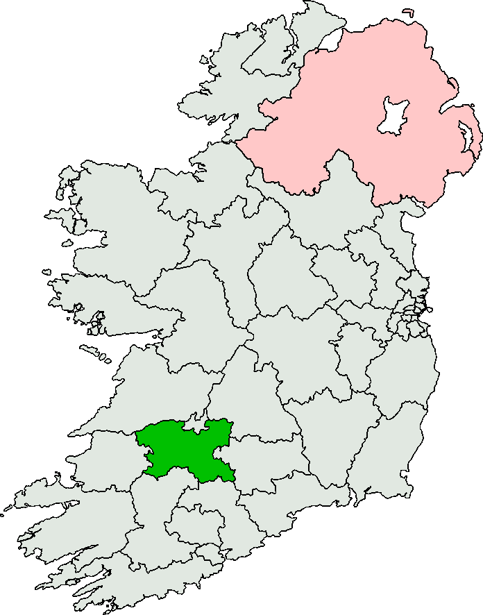 Map depicting the Irish electoral constituency of Limerick, created under the Electoral Act 2009.